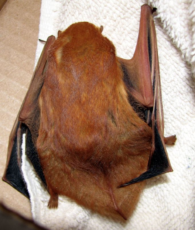 Desert Red Bat, Lasiurus blossevillii